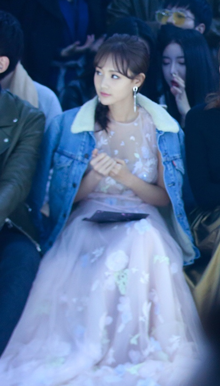 Li Yitong in 2016 cropped from original